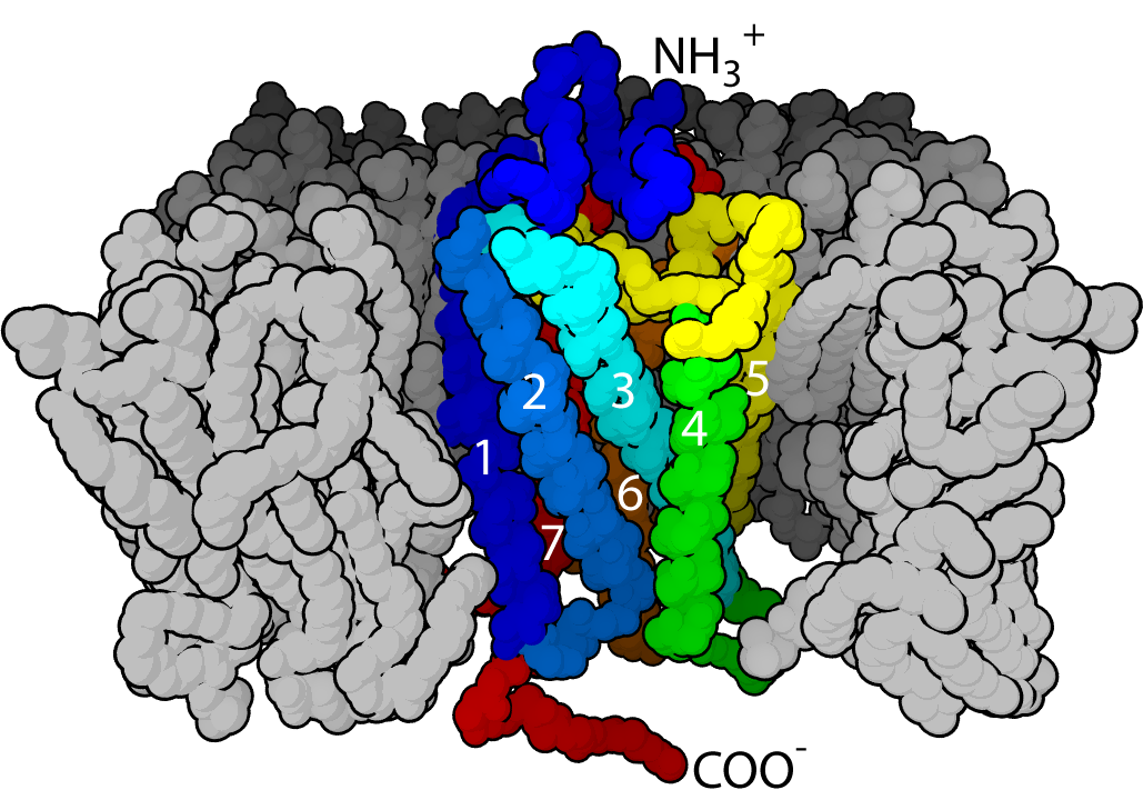 The 7TM helixes of bovine rhodopsin. Based on PDB 1hzx and the Heller/Schaefer/Schulten lipid bilayer coordinates.